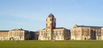 Author:User:Microzealand